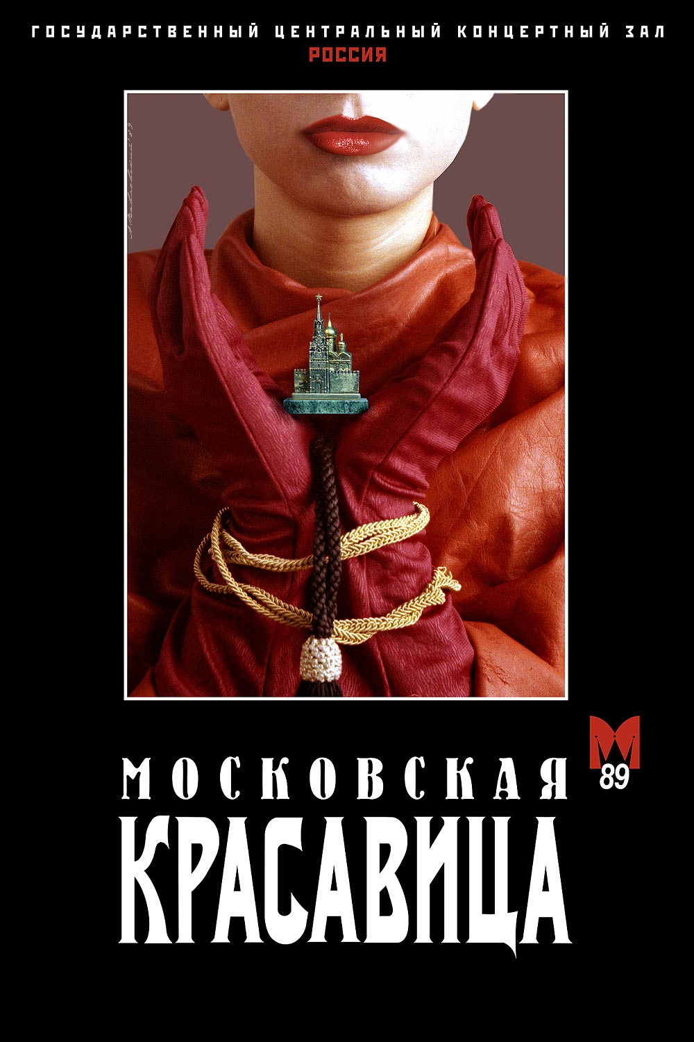 The Poster to Moscow Beauty pageant